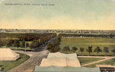 Experimental farm, Indian Head Sask 1911